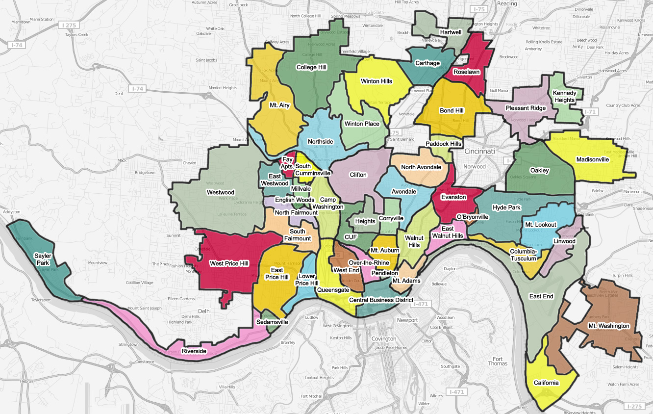 A colored map of neighborhoods within Cincinnati, Ohio. Neighborhood lines may not be perfectly exact at the street level, and are based on neighborhood information on This street map is derived from a free map.